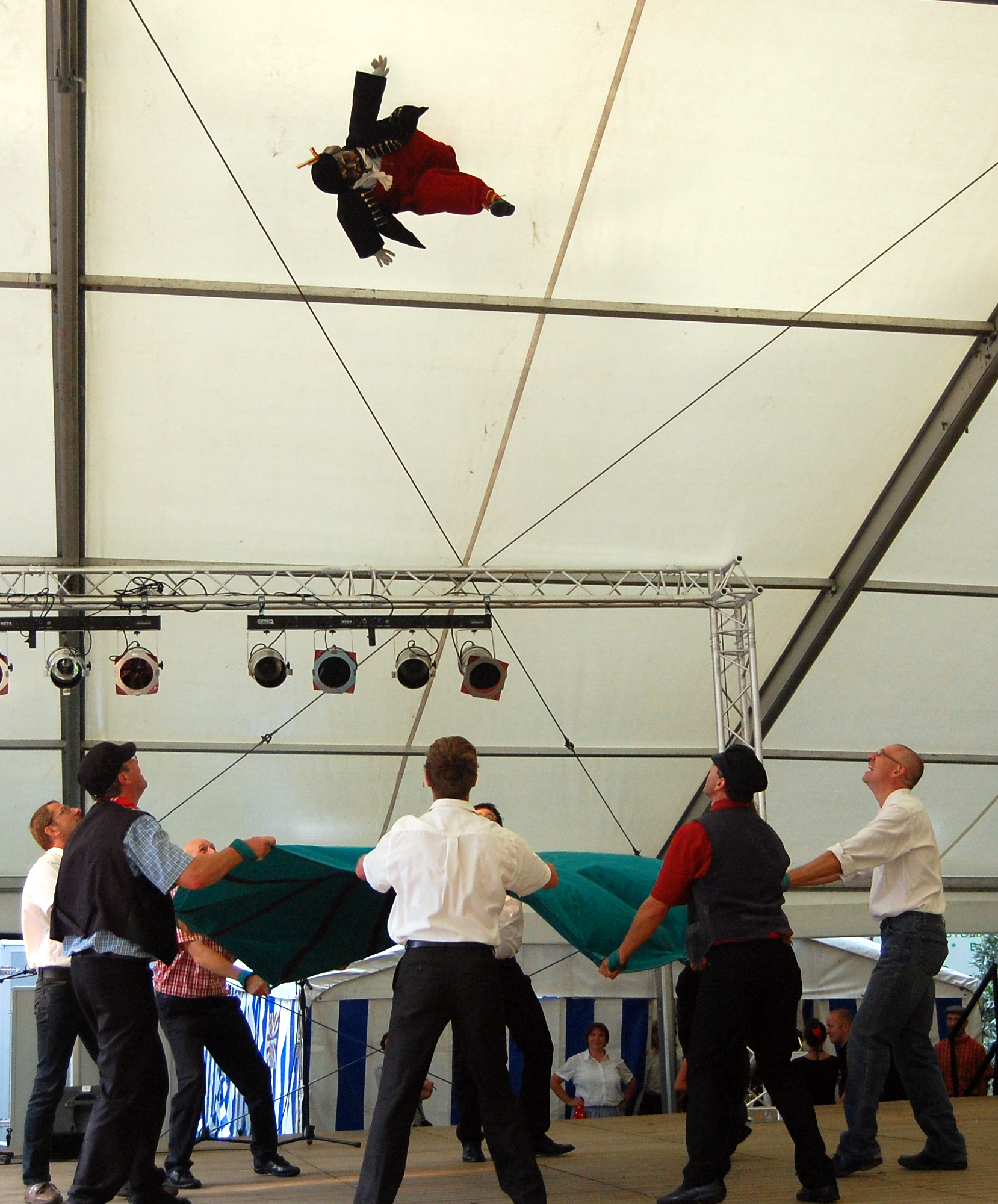 The folklore tradition of throwing Opsinjoorke in Sint-Katelijne-Waver, Belgium.